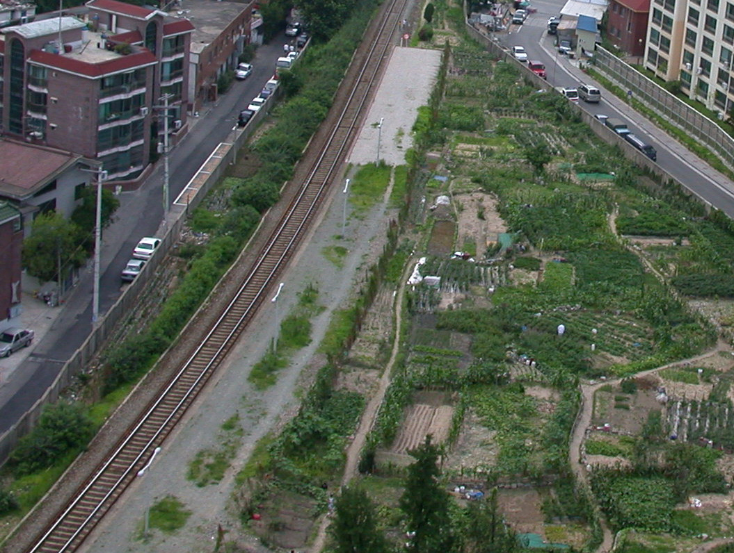 Singongdeok Station of Korean National Railroad's Gyeongchun Line, located in Gongneung 2-dong, Nowon-gu, Seoul.